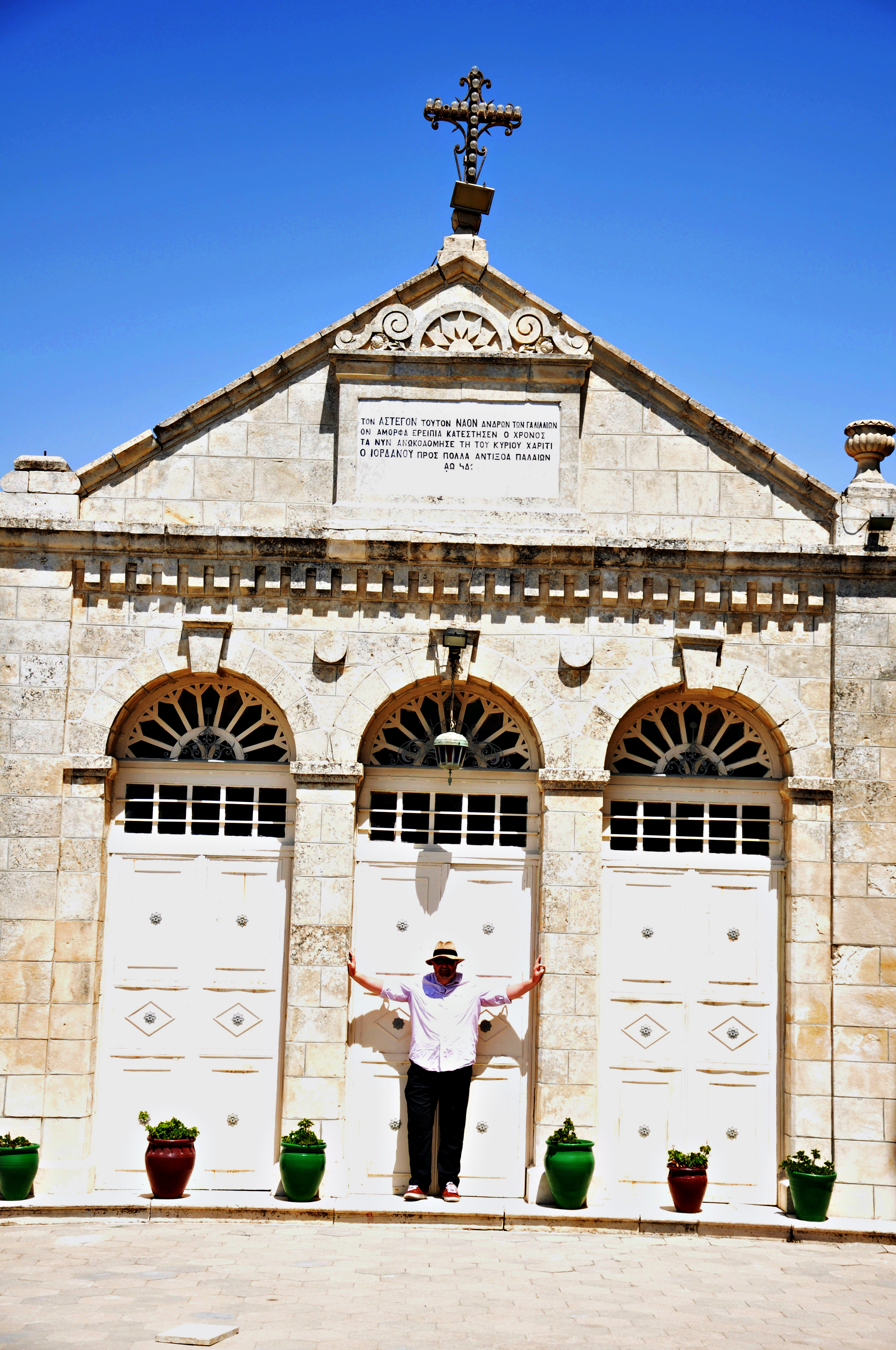 Greek Orthodox Church